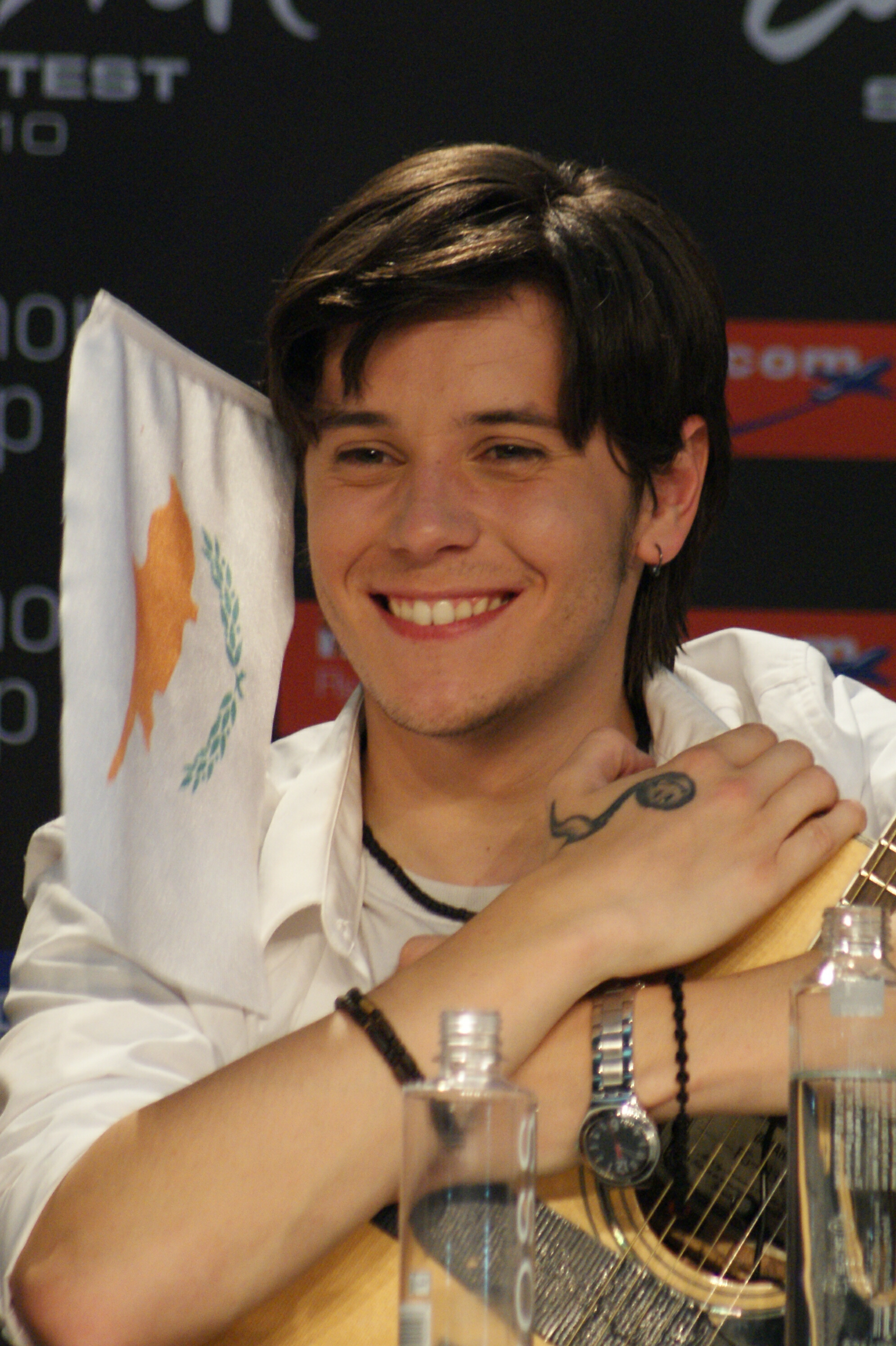 Jon Lilygreen